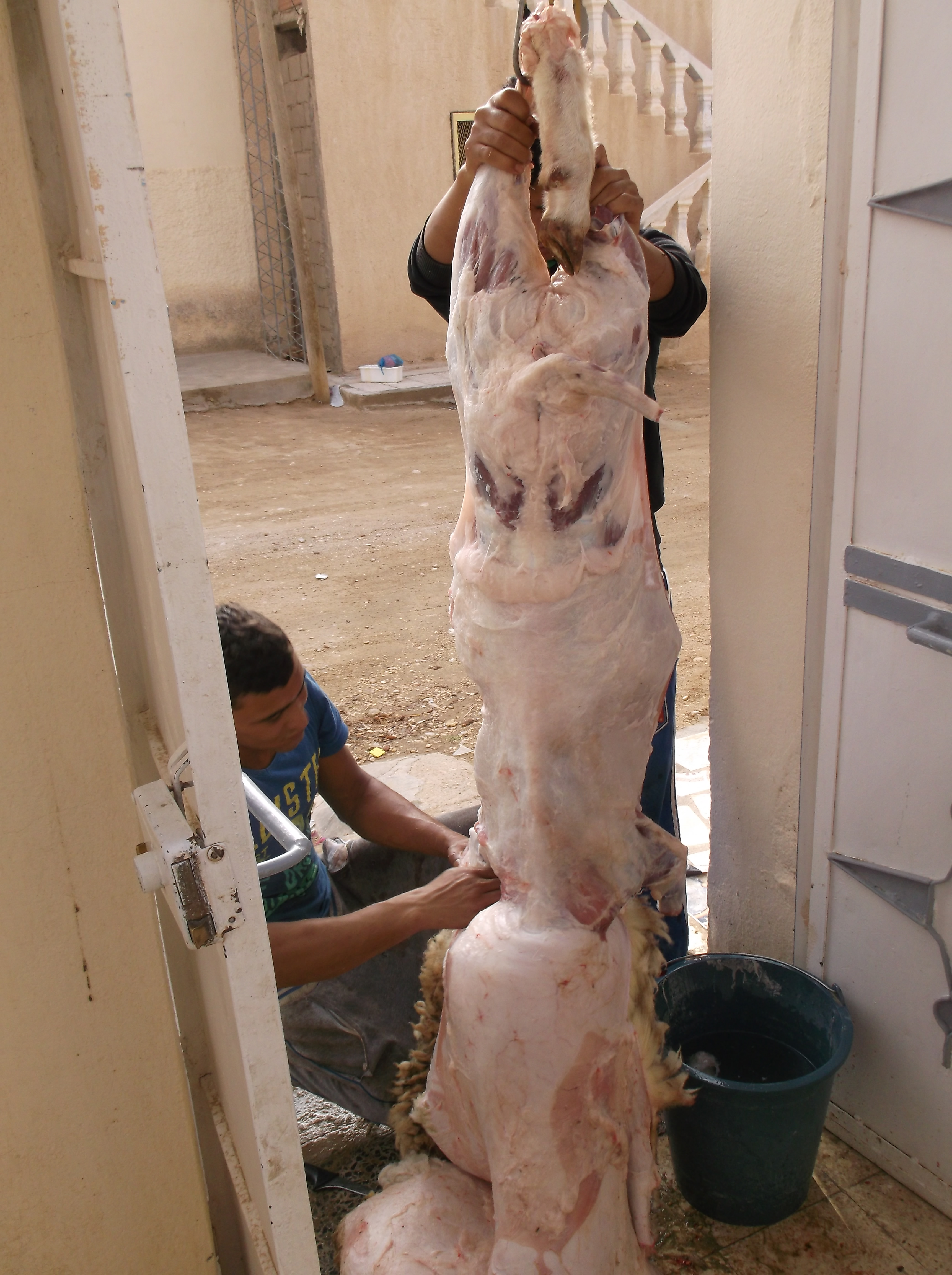 Skinning sheep in Eid al-Adha This is an image of food from Tunisia